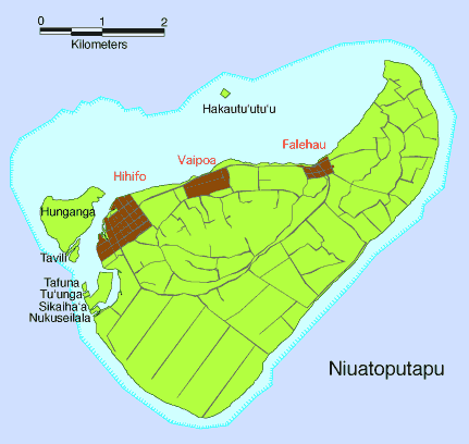 map of Niuatoputapu, Niuas, Northern Tonga, Pacific Ocean